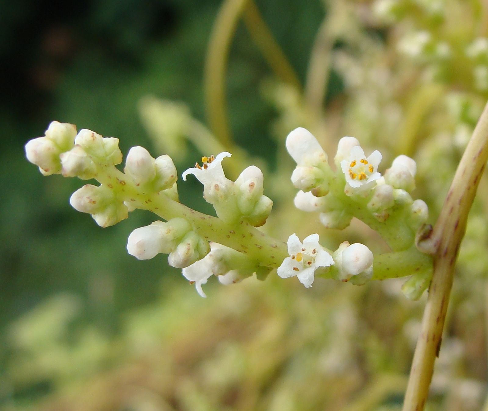 Cuscuta japonica Choisy （ Nenasi Kazura ） Flower